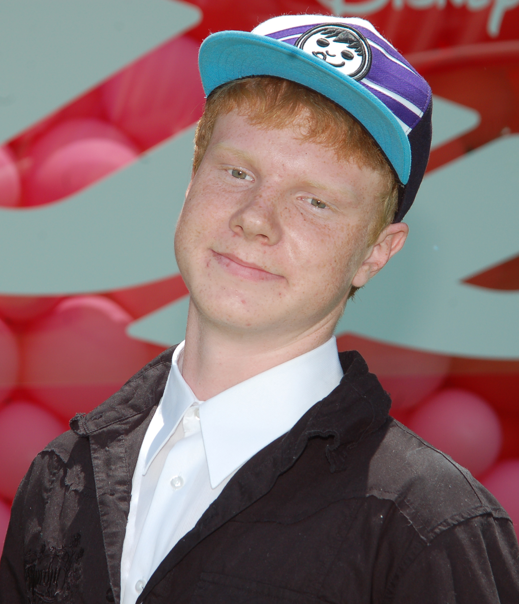 Adam Hicks at the premiere for Up